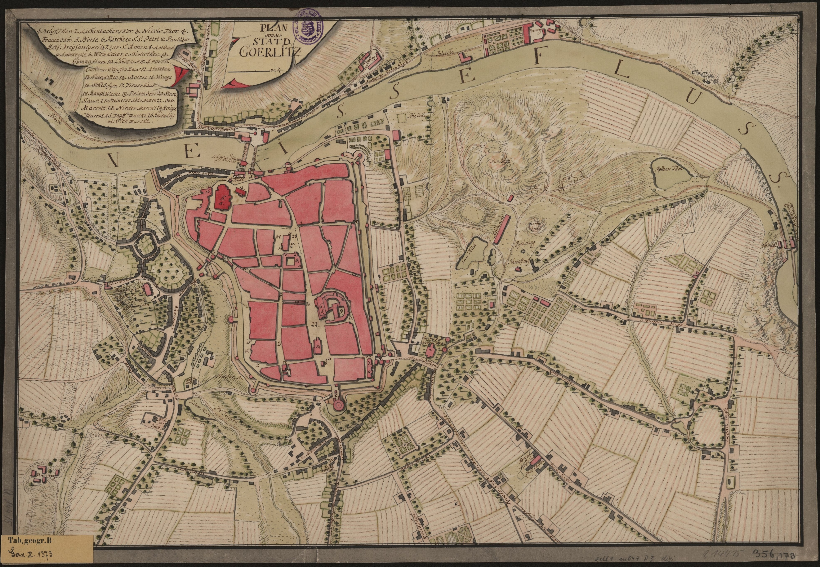 Map of the town of Görlitz (Saxony, Germany).